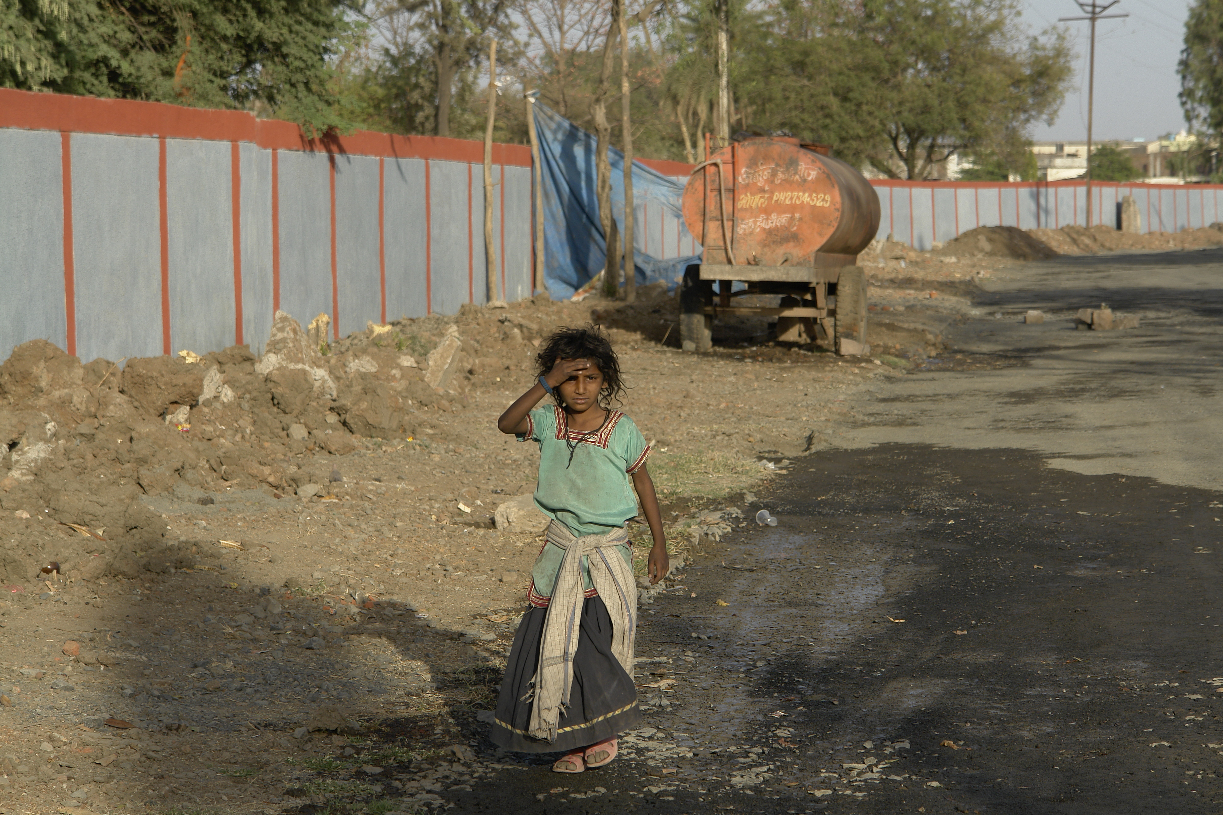 Young girl near Union Carbide factory, Bhopal, India.